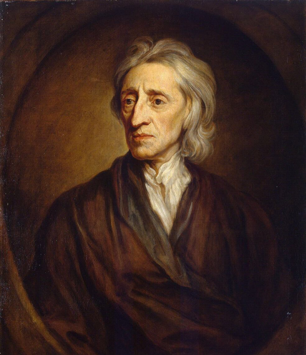 Portrait of John Locke, by Sir Godfrey Kneller. Source of Entry: Collection of Sir Robert Walpole, Houghton Hall, 1779.